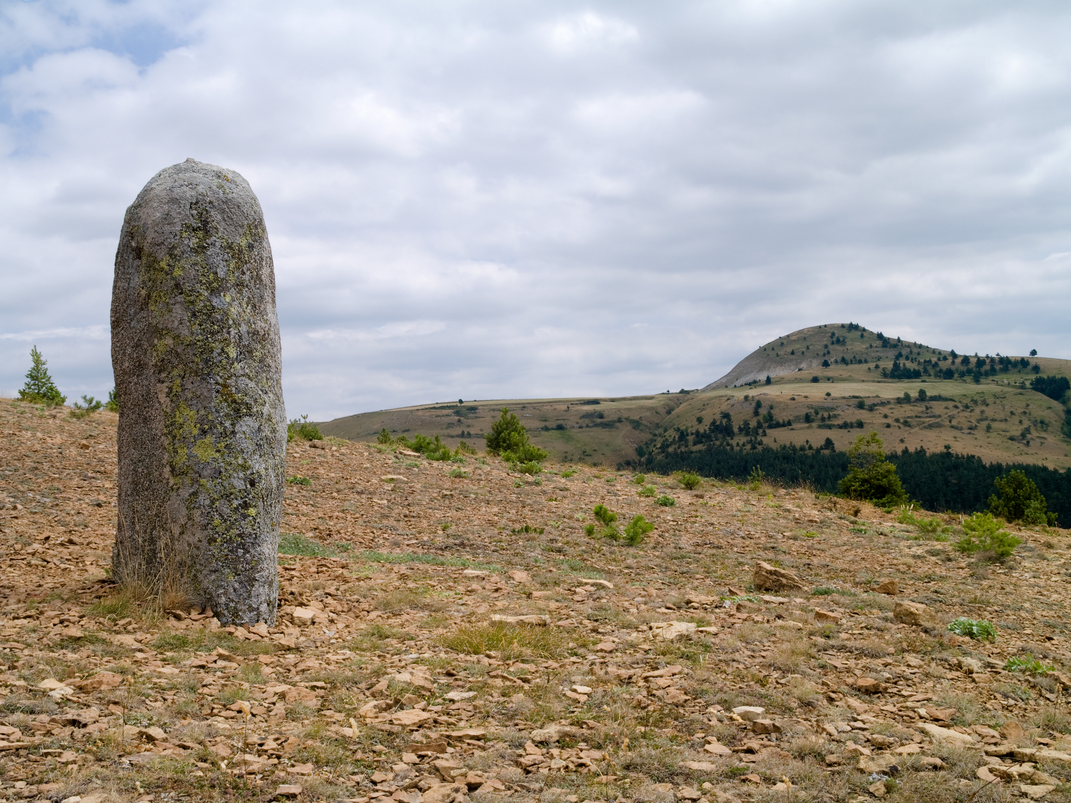 One of the standing stones in the “Cham des Bondons” site, Lozère, France. In the background is the hill called “Puech de Mariette” then, more recently, “Truc des Bondons”.